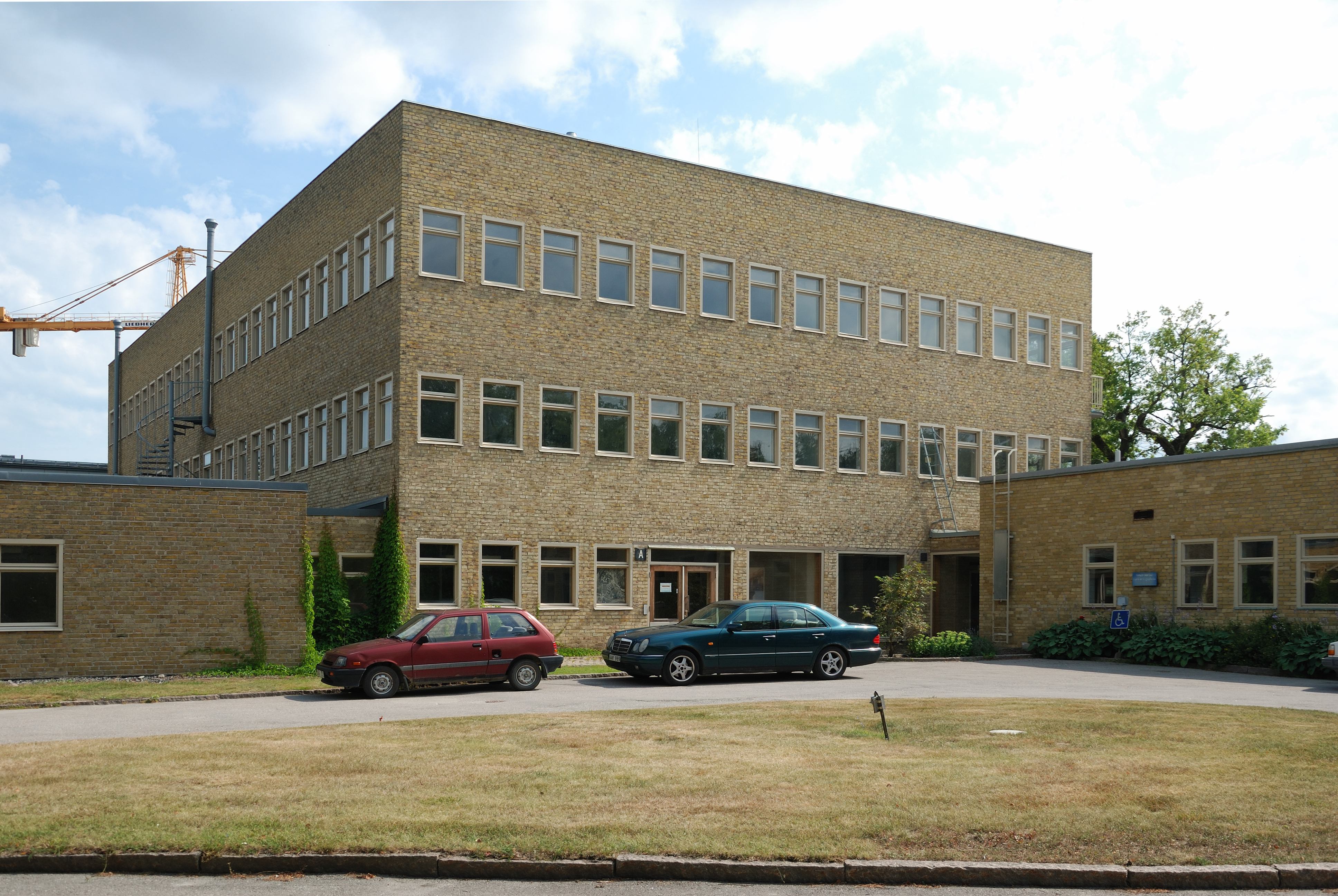 Statens bakteriologiska laboratoriums anläggning i Ingenting